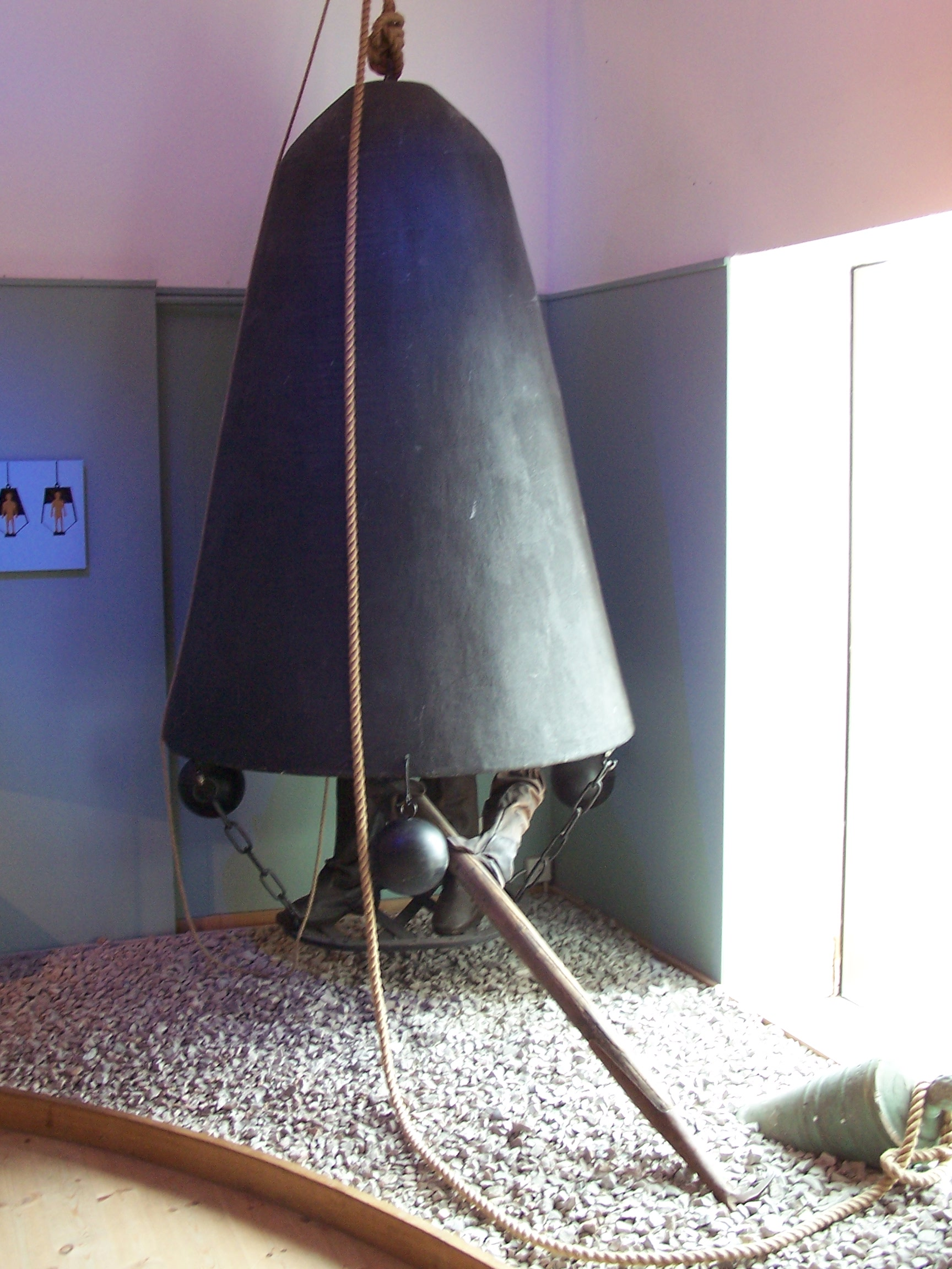 Diving bell, Marinmuseum (Naval museum), Karlskrona, Sweden.